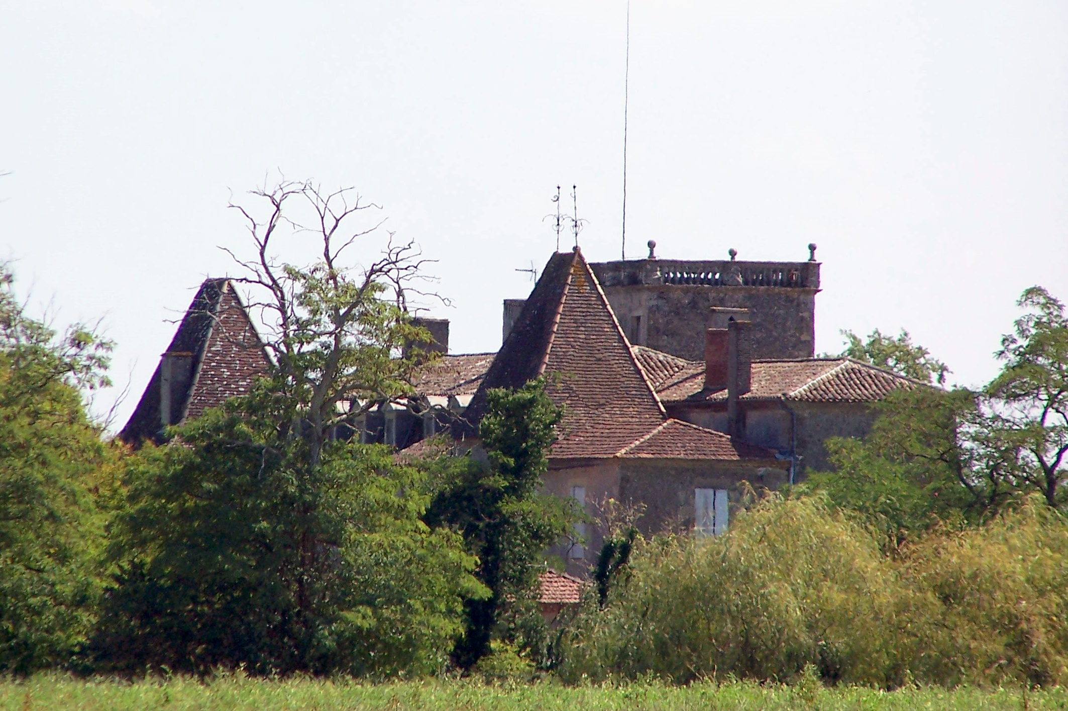 Tower in Castillon-de-Castets (Gironde, France)